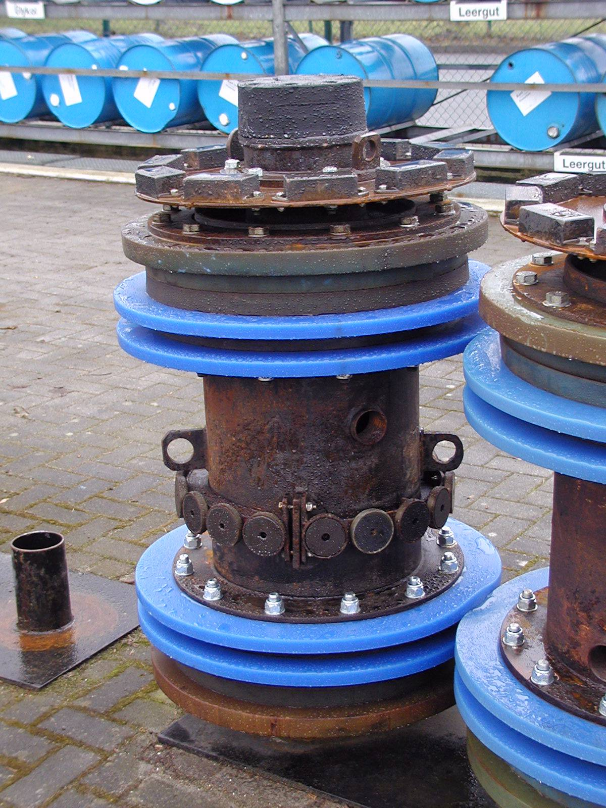 Cleaning pig for a 28-inch crude oil pipeline with plastic disks for cleaning and permanent magnets to gather ferrous debris